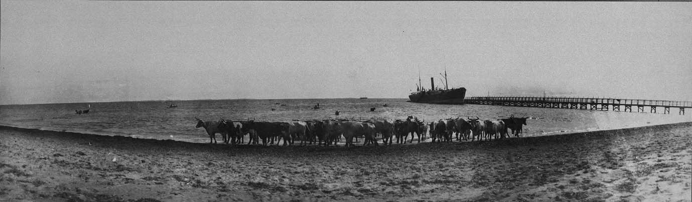 Ship docked at Robb Jetty in background. The bullocks herd on the beach.